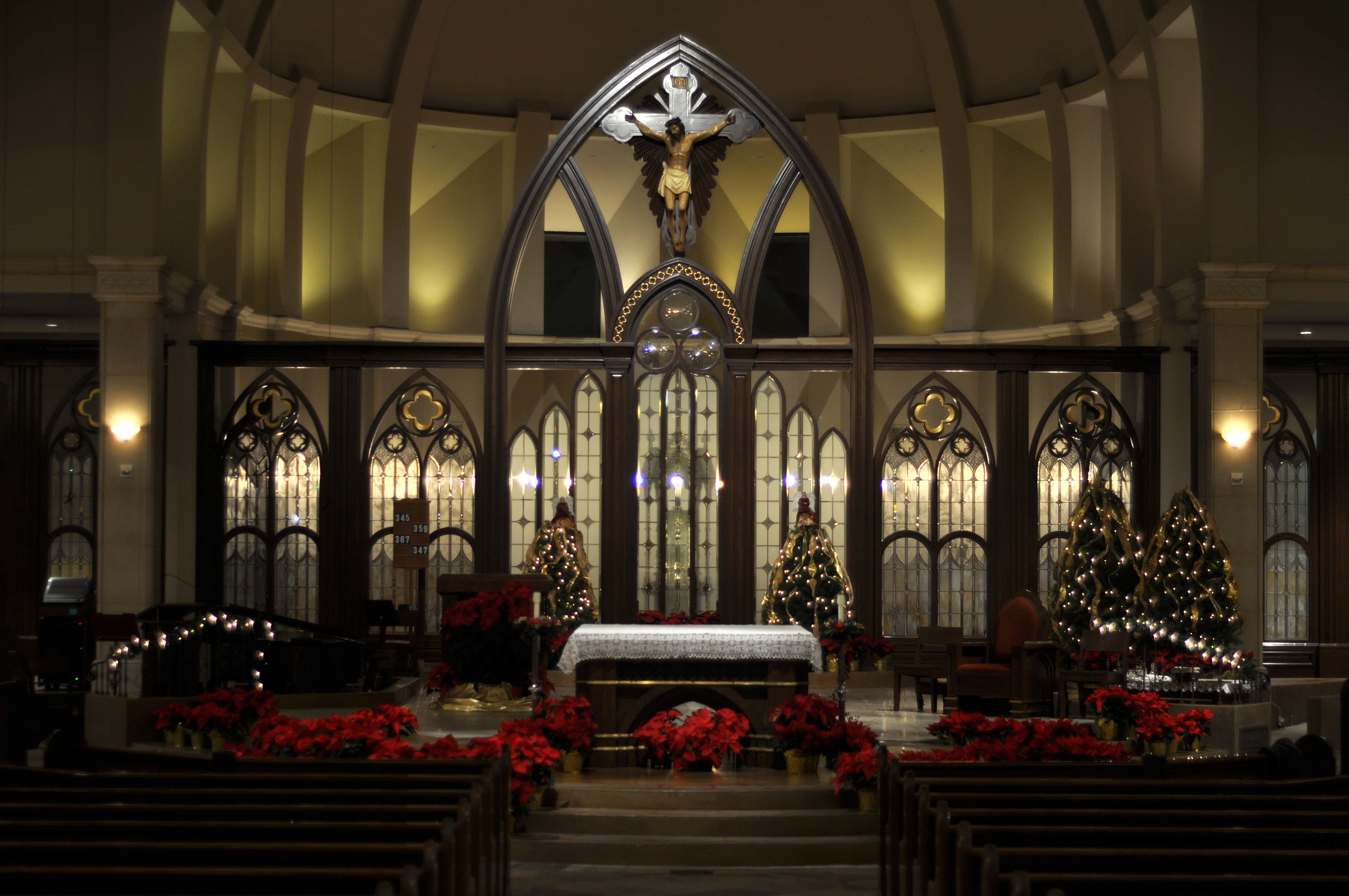 Midnight Mass 2010 - 66